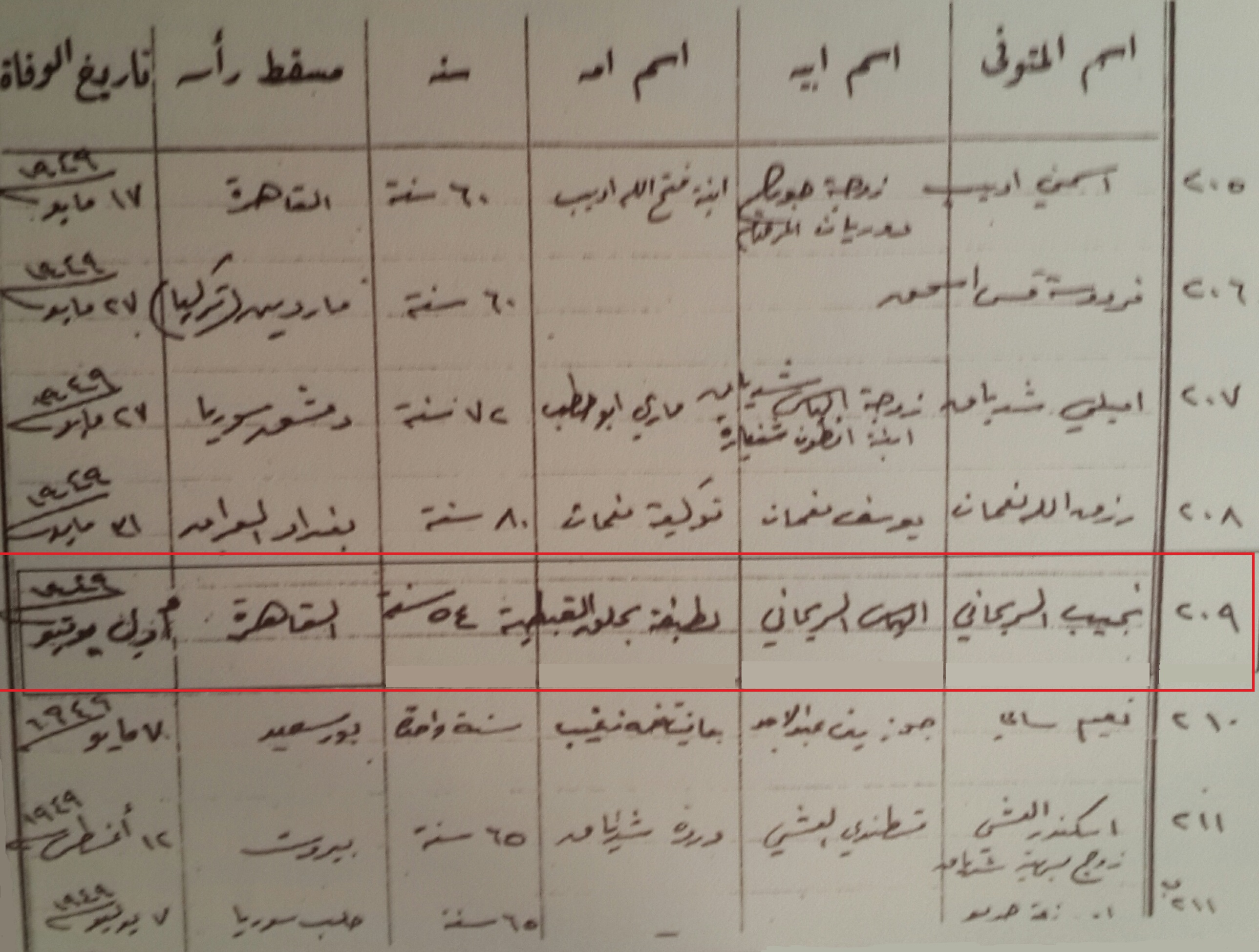 A page from the record of the dead which includes Naguib el-Rihani's name and date of death in 1949.